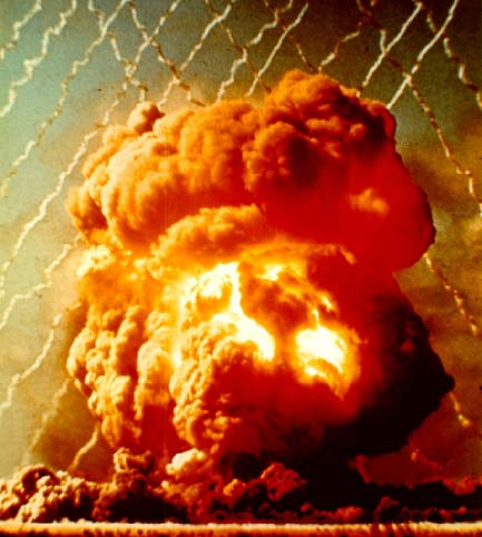 Buffalo R4/Breakaway nuclear test of the United Kingdom.